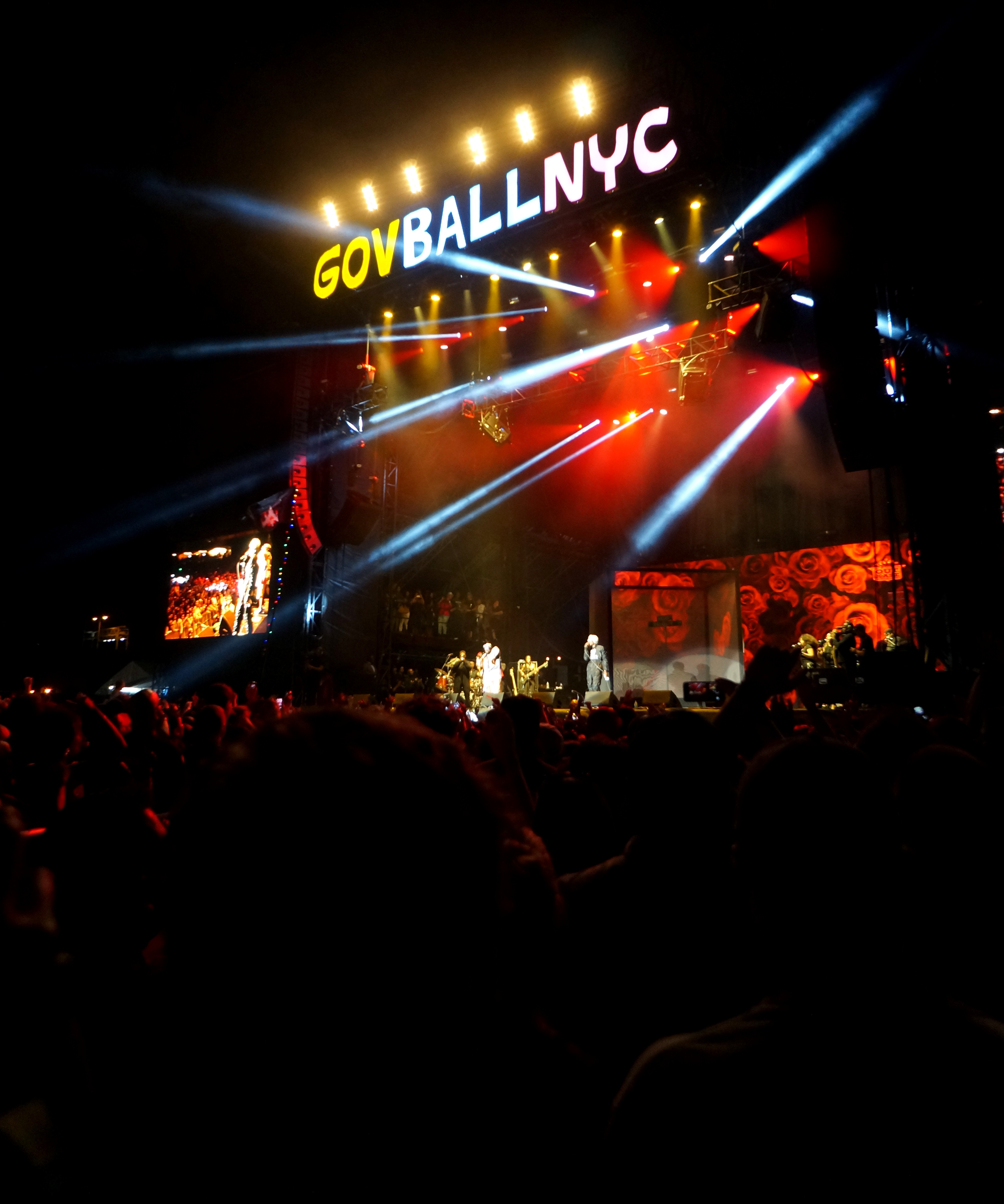 Outkast headlining on the first day of the Governors Ball Music Festival in New York City. More CC Music Festival Pictures[1]